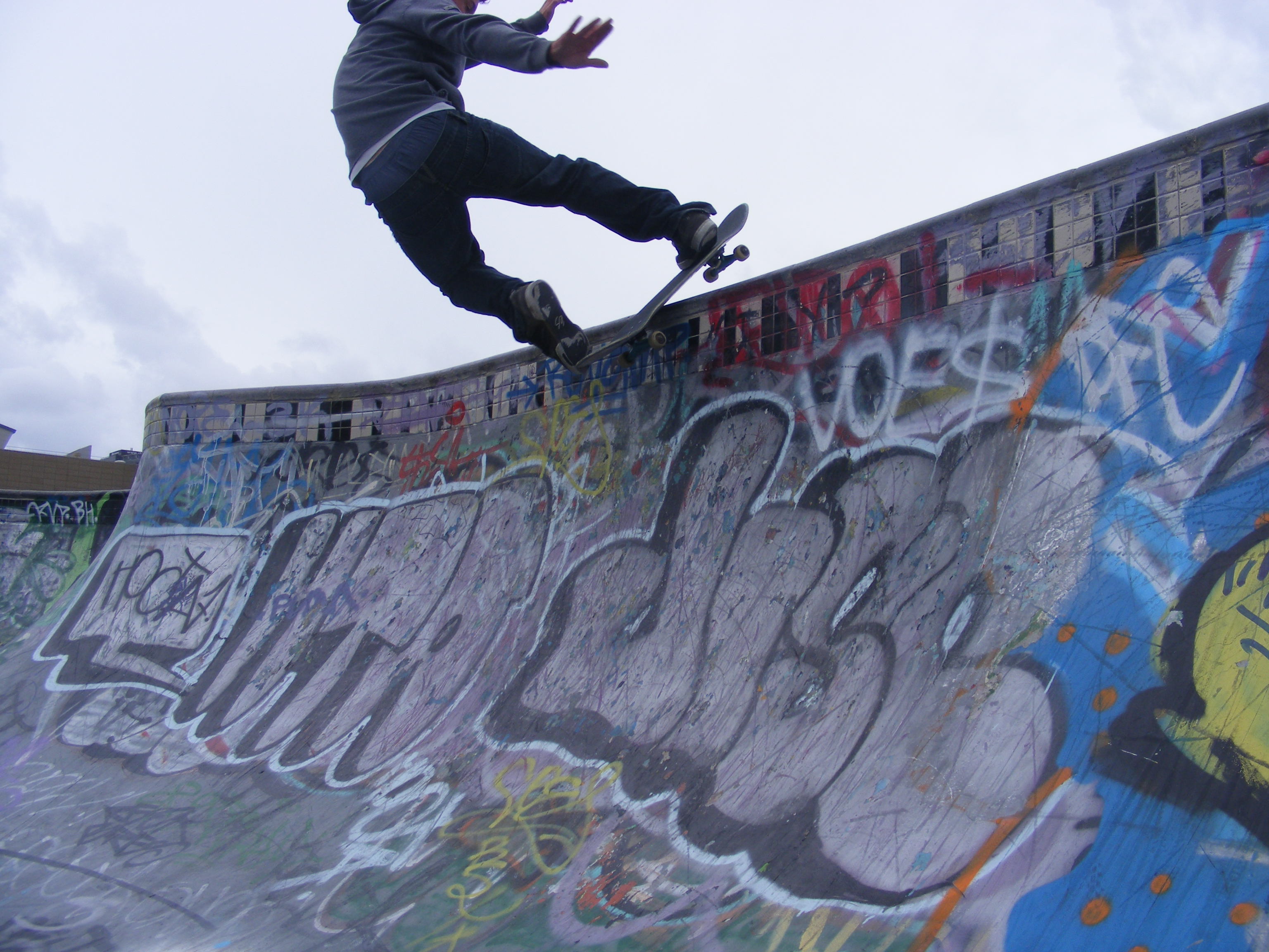 A photograph of the skateboarding trick called a Front Side Rock and Roll by Stuart Bermingham.